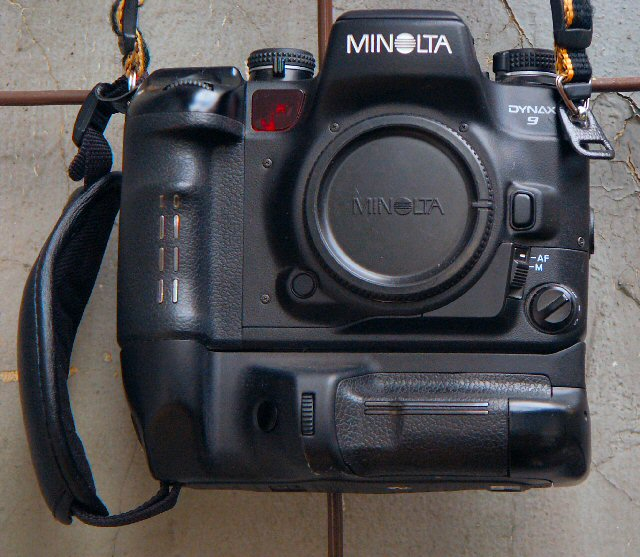 Minolta Dynax 9, Front